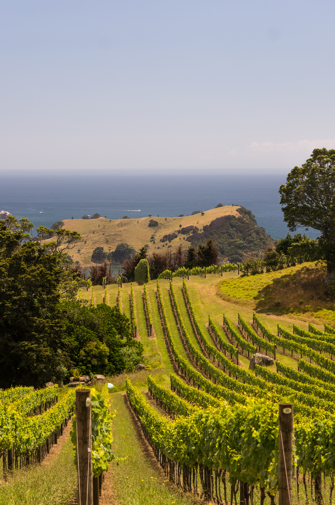 Some of the Man o' War vineyards, with Hooks bay visible in background. Kauri tree to right, and a gap in the vineyard rows for one of the boulders typical of Stony Batter